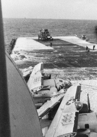 Crewmen removing snow from the flight deck of the U.S. Navy aircraft carrier USS Yorktown (CVS-10). The carrier operated in the Sea of Japan during the "Pueblo Crisis" in February 1968. Yorktown, with assigned Carrier Anti-Sbumarine Air Group 55 (CVSG-55), was deployed to the Western Pacific and Vietnam from 28 December 1967 to 5 July 1968.